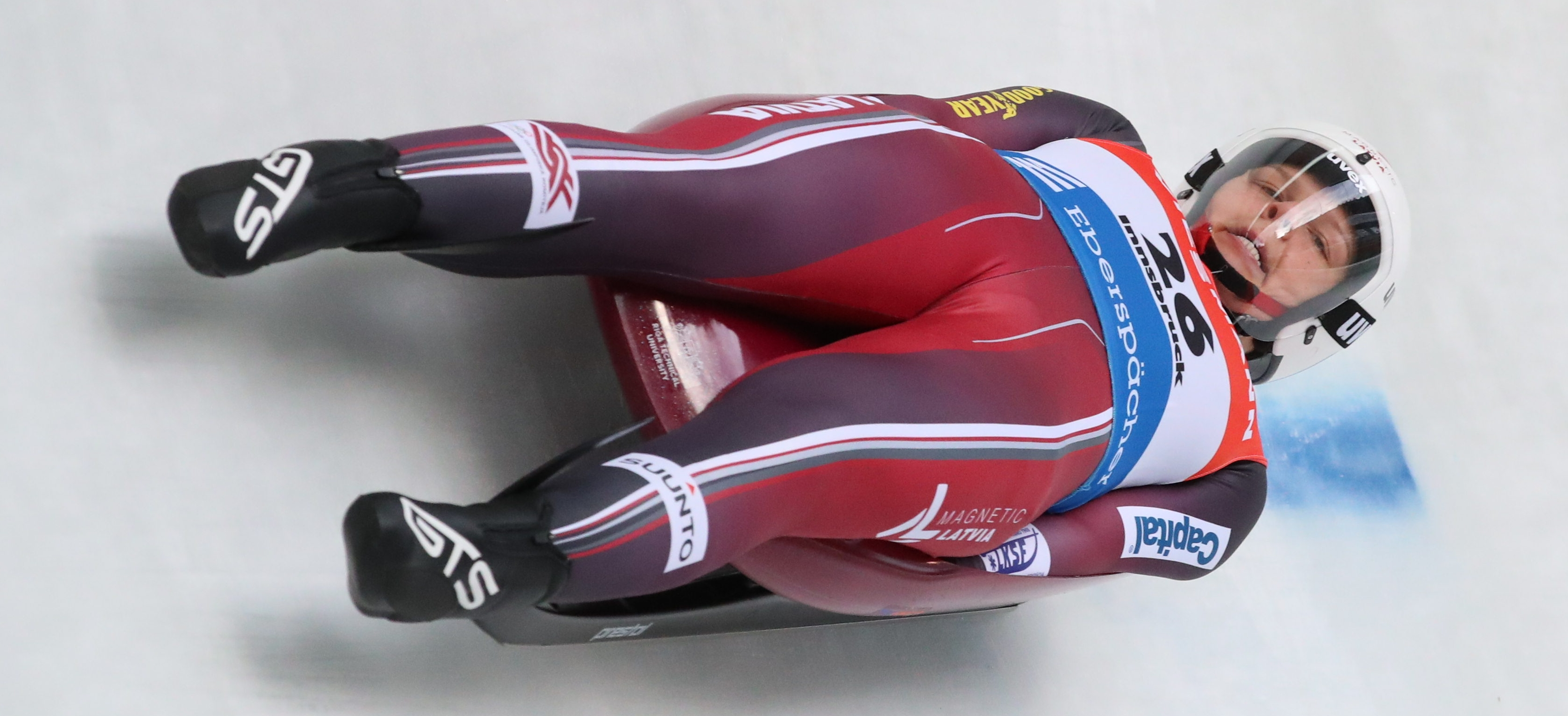 Women's World Cup race at the 2019/20 Luge World Cup in Innsbruck-Igls